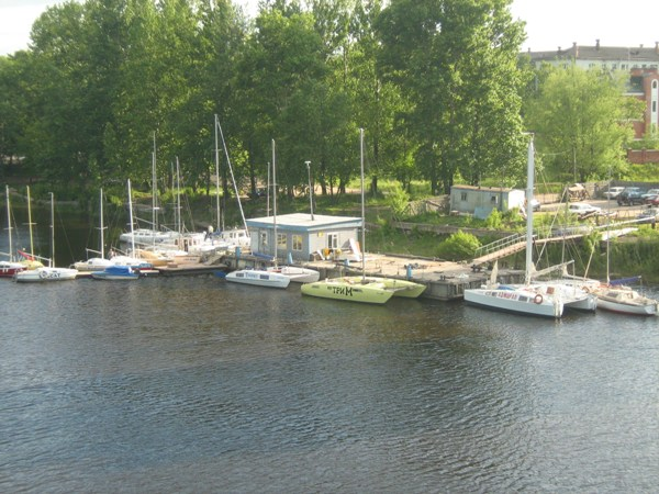 Boat station in Tver (Tvertsa river)